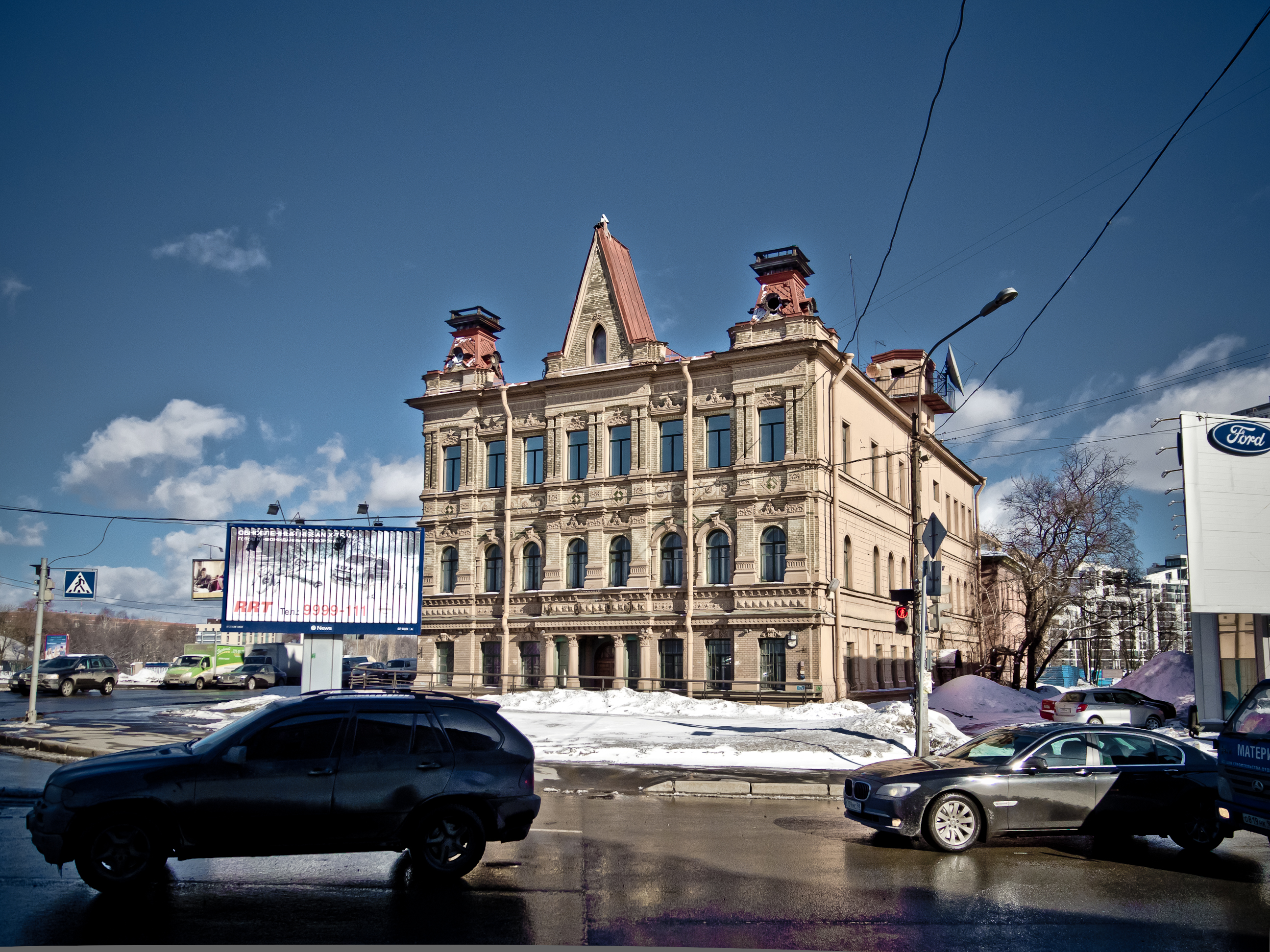 Kolobov's mansion, timber works house in Saint Petersburg